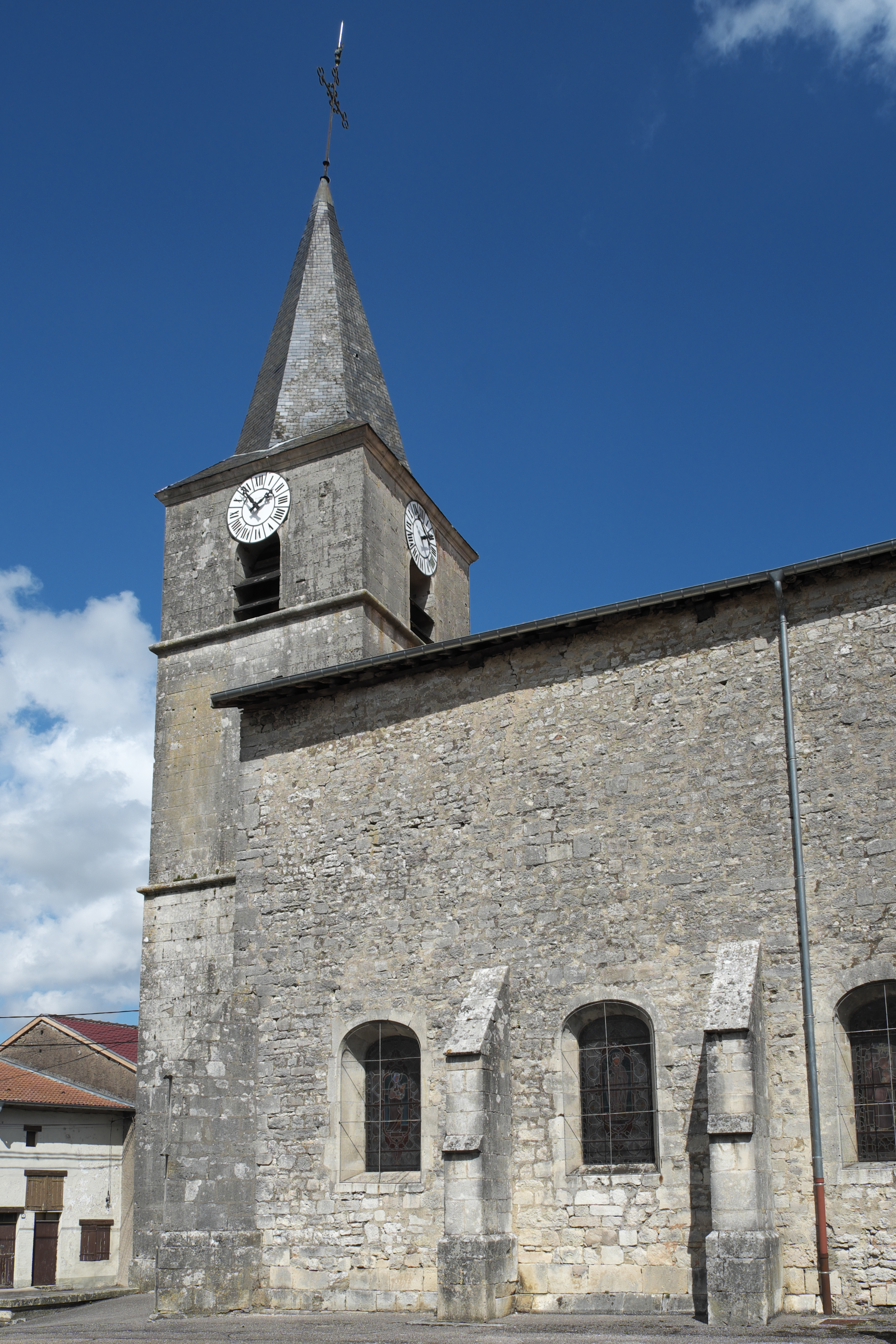 Church in Tréveray in the Meuse département (Lorraine, France)